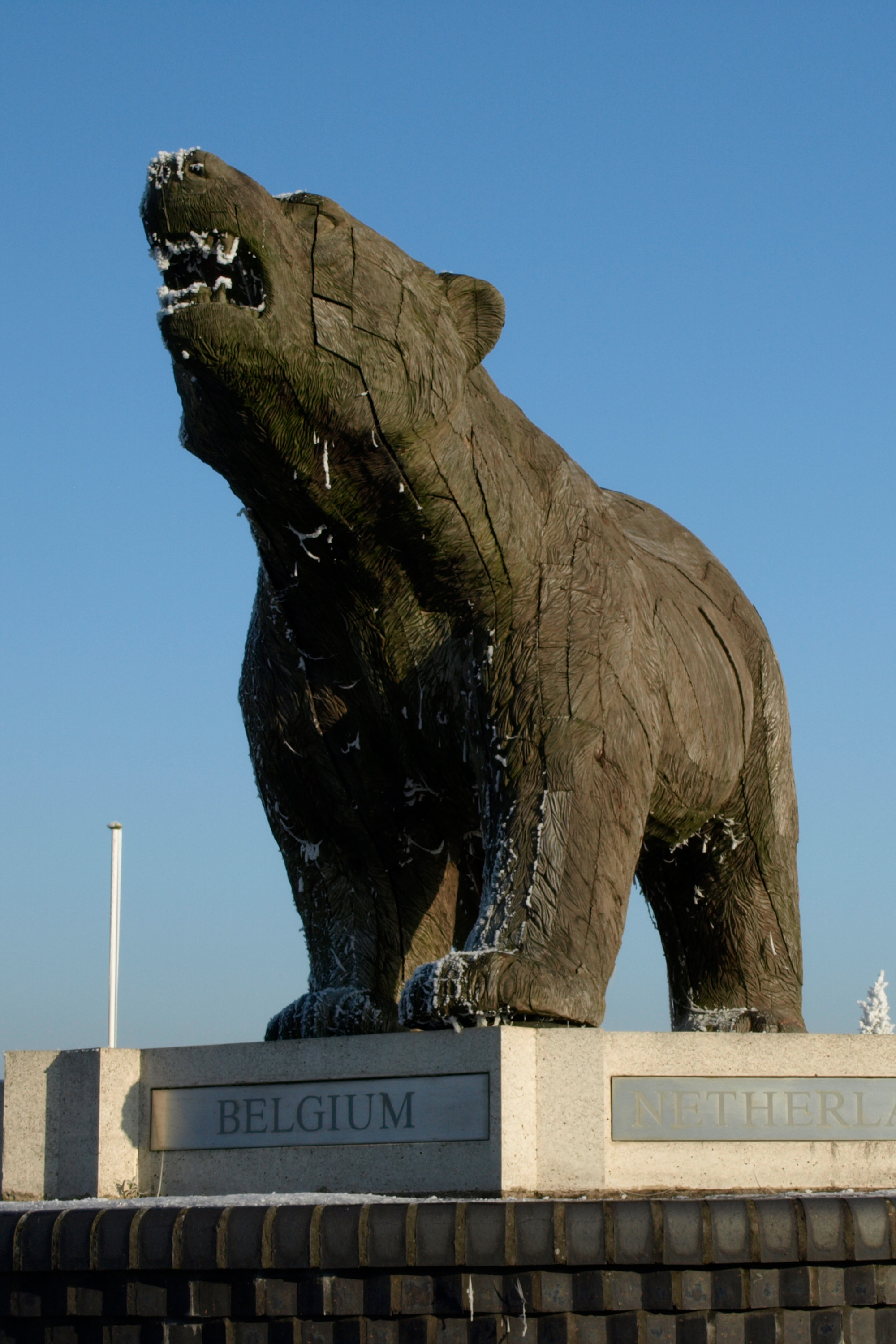 The very first memorial dedicated at the National Memorial Arboretum, on 7 June 1998.